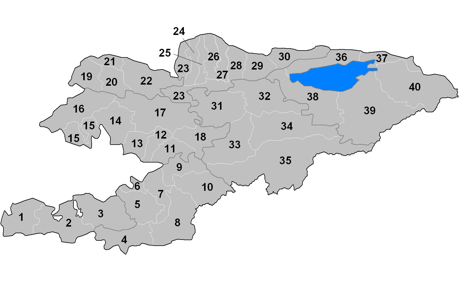 Maps of districts in Kyrgyzstan with numbers.